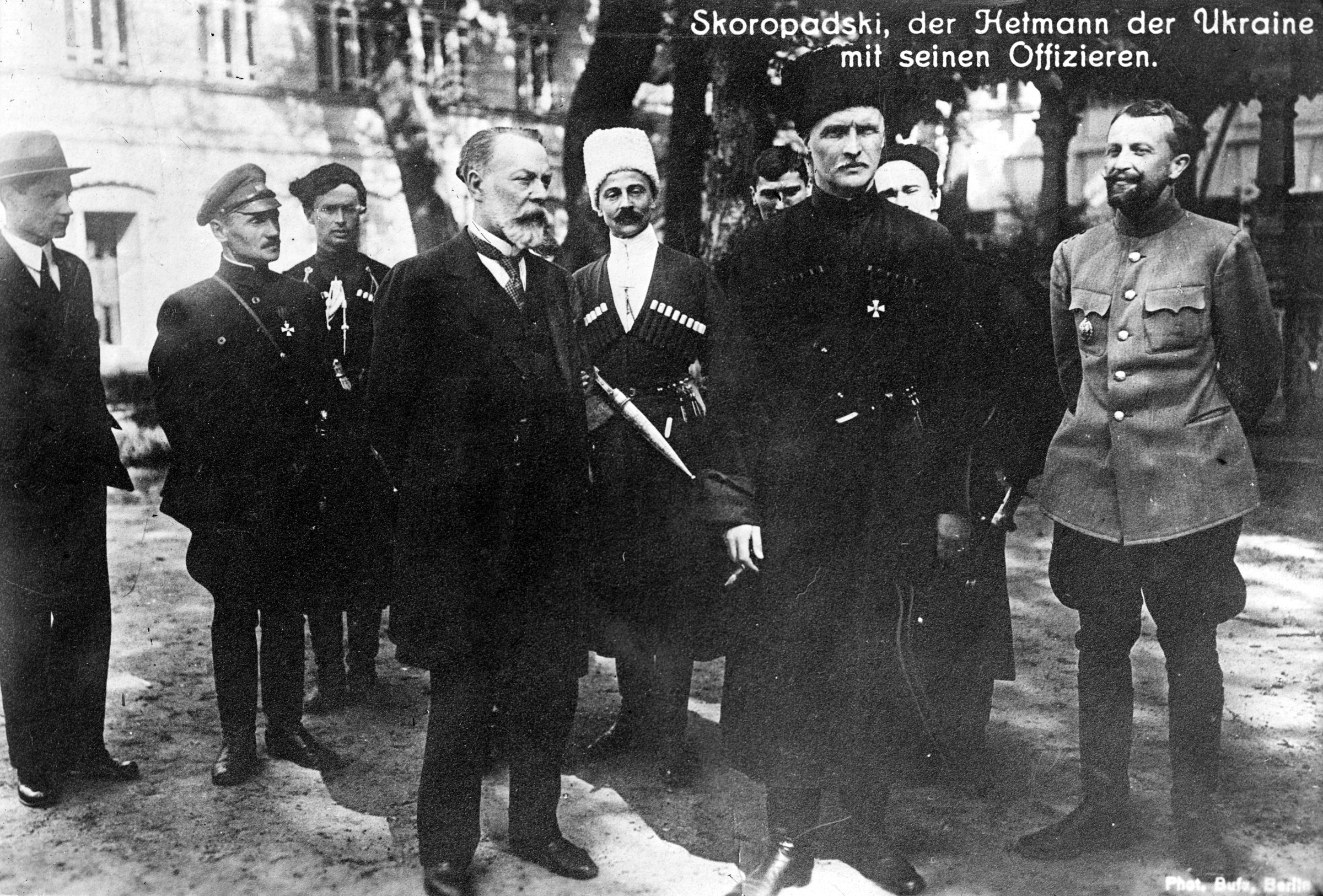 Hetman Pavlo Skoropadsky with his officers. Is second from the left - general-khorunzhiy K. Prisovsky. Digital ID: ggbain 34754